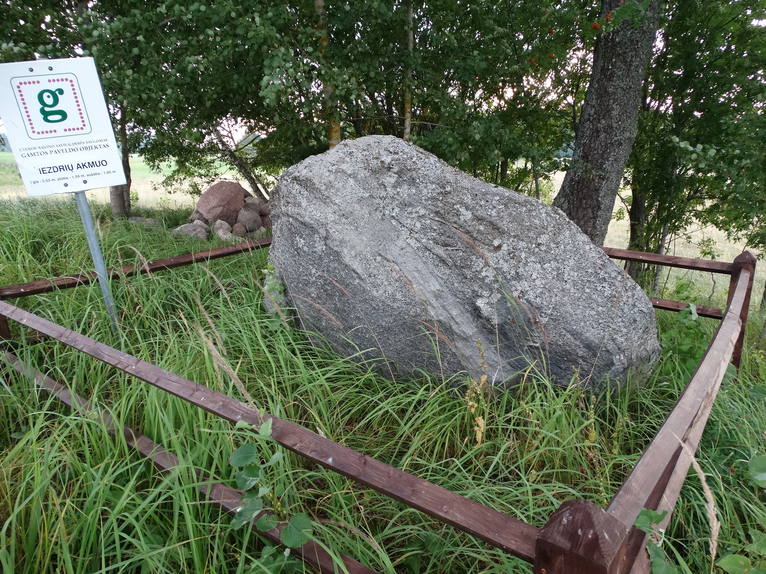 Žiezdriai Stone, Utena District, Lithuania